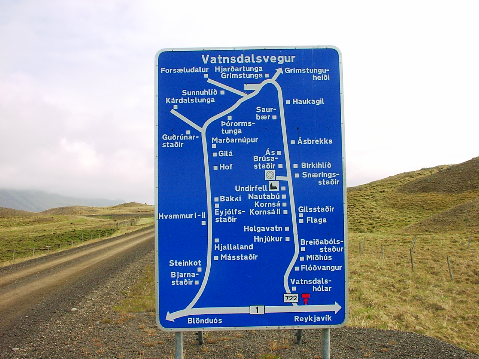 A large example of a typical Icelandic Road sign showing the way to lots of farms and villages.